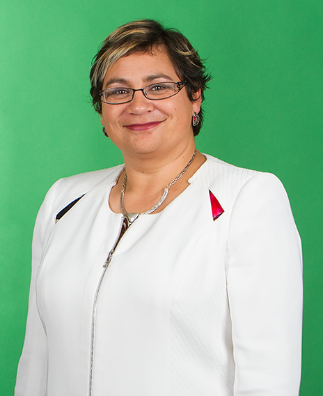 Metiria Turei, Green Party of Aotearoa New Zealand female co-leader (2009 - 2017) Māori: Ko Metiria Turei, ko te māngai wāhine mō te Rōpū Kākāriki o Aotearoa mai i te tau 2009 tae noa ki te tau 2017